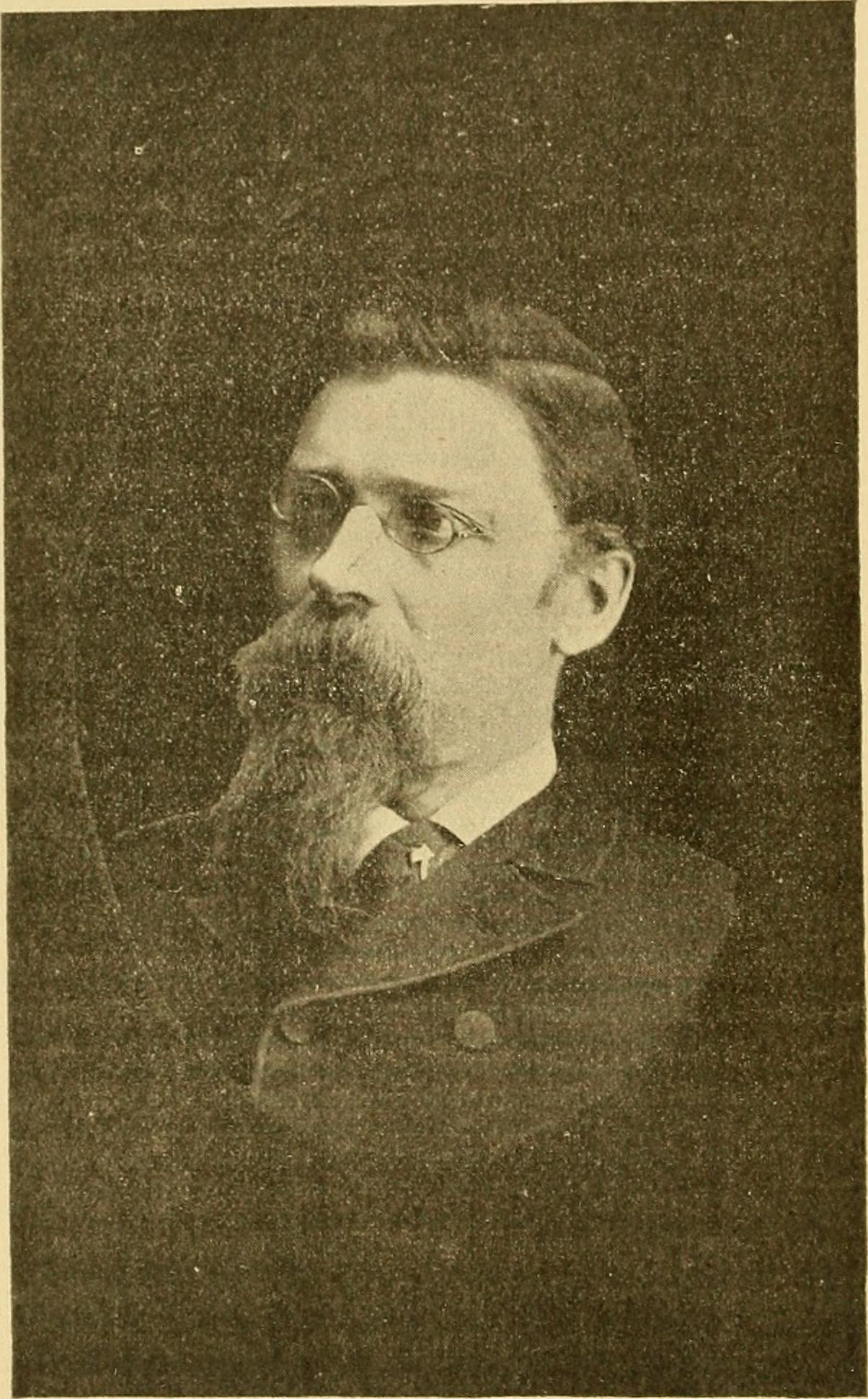 Portrait of Carl Fredrik Peterson, c. 1892 Title: Ett hundra år : en återblick på det nittonde seklet Year: 1892 (1890s) Authors: Peterson, C. F. (Carl Fredrik), 1843-1901 Subjects: Nineteenth century Publisher: Chicago : Engberg-Holmberg Publishing Co. Text Appearing Before Image: nn! Spinn! Neckrosen. Våren är kommen. Rings dräpa. Soumis sång. Norges bedste. Före rider bruden. Etc, etc. Skandia. Fyrstämmiga fosterländska sånger för mansröster. Klothband. $1.00 I denna samling äro intagna bland annat följande välkändastycken: Domaredansen. Näckrosen. Fädrelandssang. Olaf Trygvasson. Min lilla vrå. Sof i ro. Före rider bruden. Spinn! Spinn! I denna samling är intagen på ett par undantag när alla sånger iNational-Sångarnes Albums femte häfte. När och Fjerran. Fyrstämmiga fosterländska sånger för mansröster. Klothband. $1.00.Innehåller bland annat: C BRÖLLOPS-MARSH.-När solens klara strålar, etc. ^^^^,^.^^ ■ Se bröllopsskaran der i långan rad. SÖDERMAN: \ 6^ f^ Entered according to Act of Congress, in the year 1892 hy THE ENGBERQ-HOLMBERO PUBLISHING CO.,In the Office of the Librarian of Congress, at Washington. ALL EIGHTS RESERVED. FORORD. Det är alltid vanligt att likna en bok vid en person, ochdet är äfven en gammal sed att börja en bok med ett långtförord, ehuru man mycket sällan håller något långt tal, närman presenterar en person. Om denne, eho han må vara,tänker man så här: han får tala för sig sjelf. Hvarför icketänka det samma, när man framlägger ett nytt pennalster?Visserligen veta vi väl, att etiketten fordrar att man skallanföra någon sorts ursäJd för den bok, hvarmed man fram-träder, men hvad tjenar det i alla fall till i en tid, som oom-bedt öfverser med snart sagdt hvilken förseelse som helst.För öfrigt har det väl ännu aetthundraren00pete